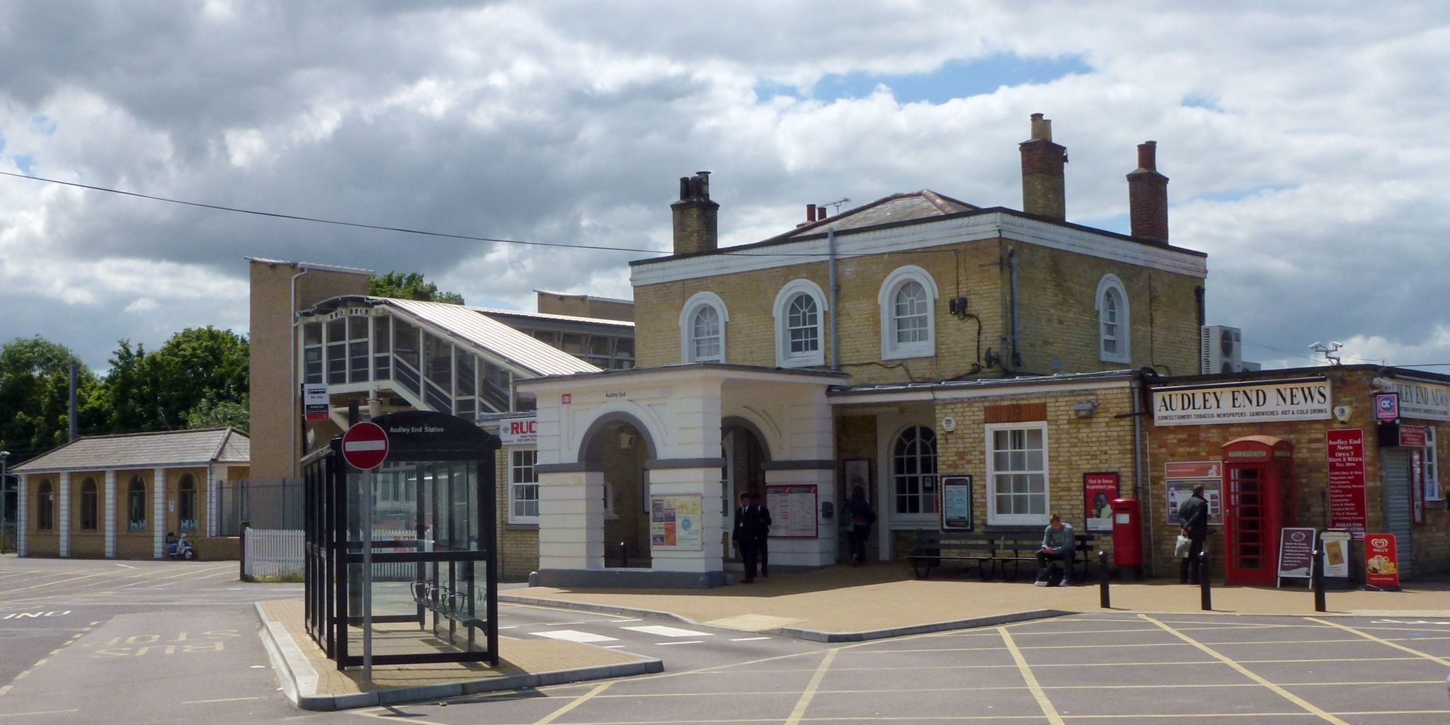 The entrance to Audley End railway station in July 2012.